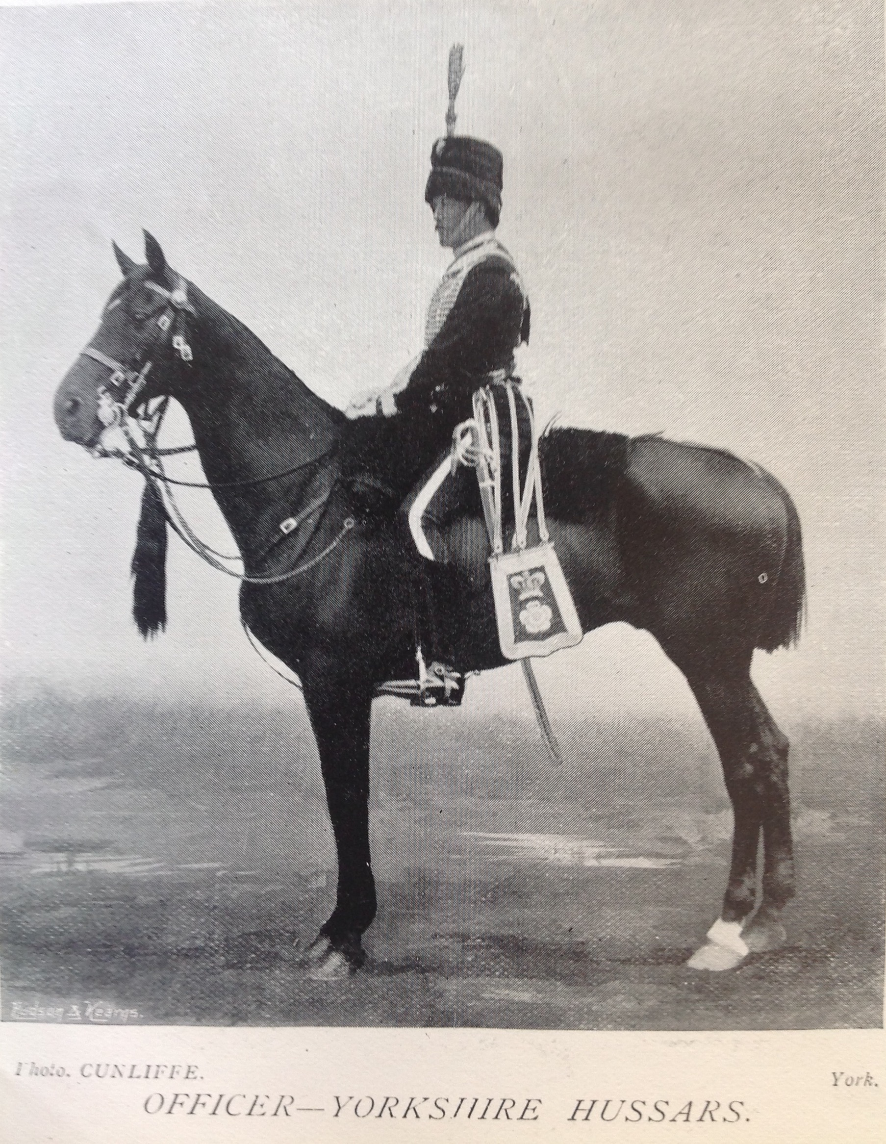 Officer, Yorkshire Hussars. Pictured in the Navy and Army Illustrated published on 9 April 1896